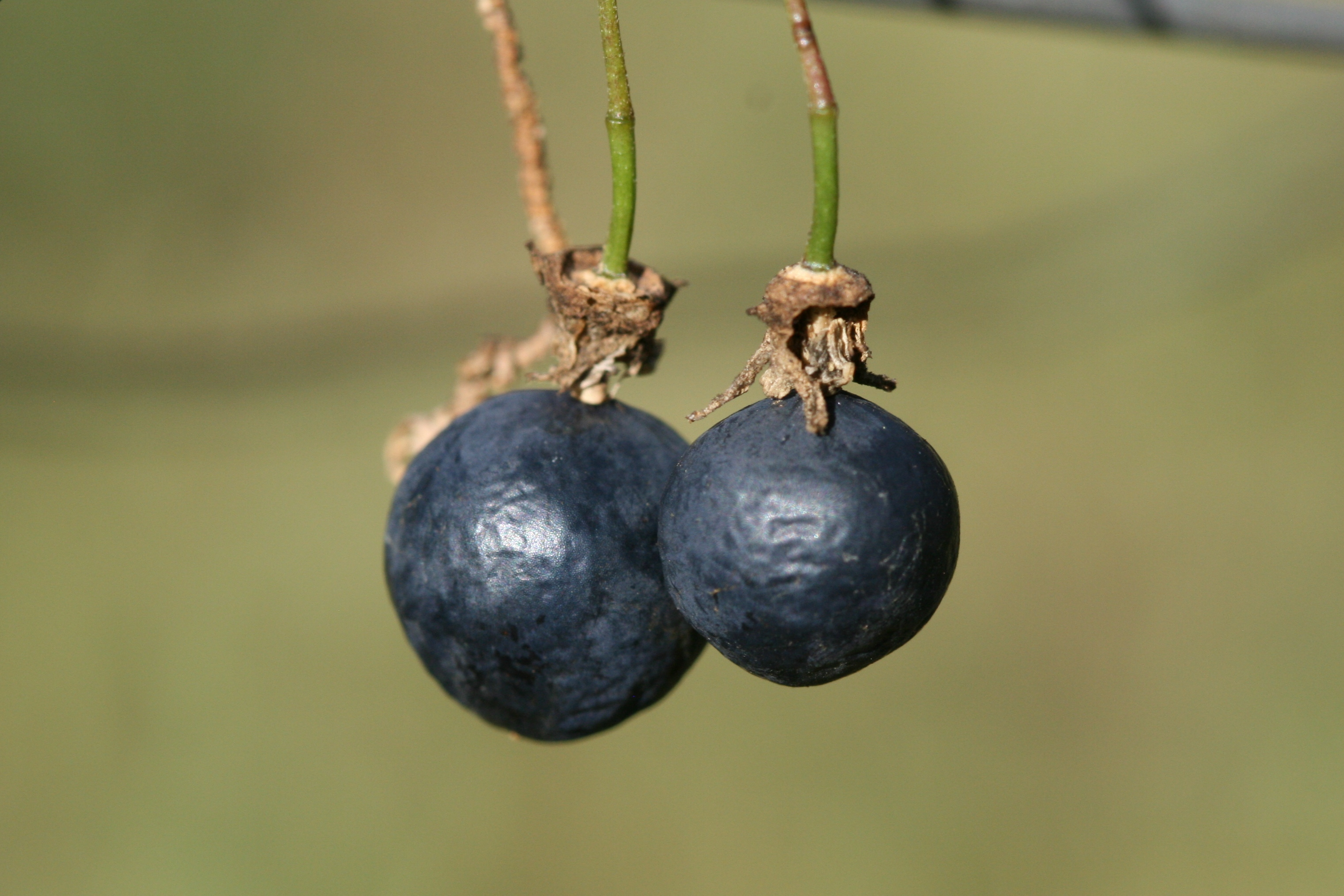 Passiflora suberosa Fruits